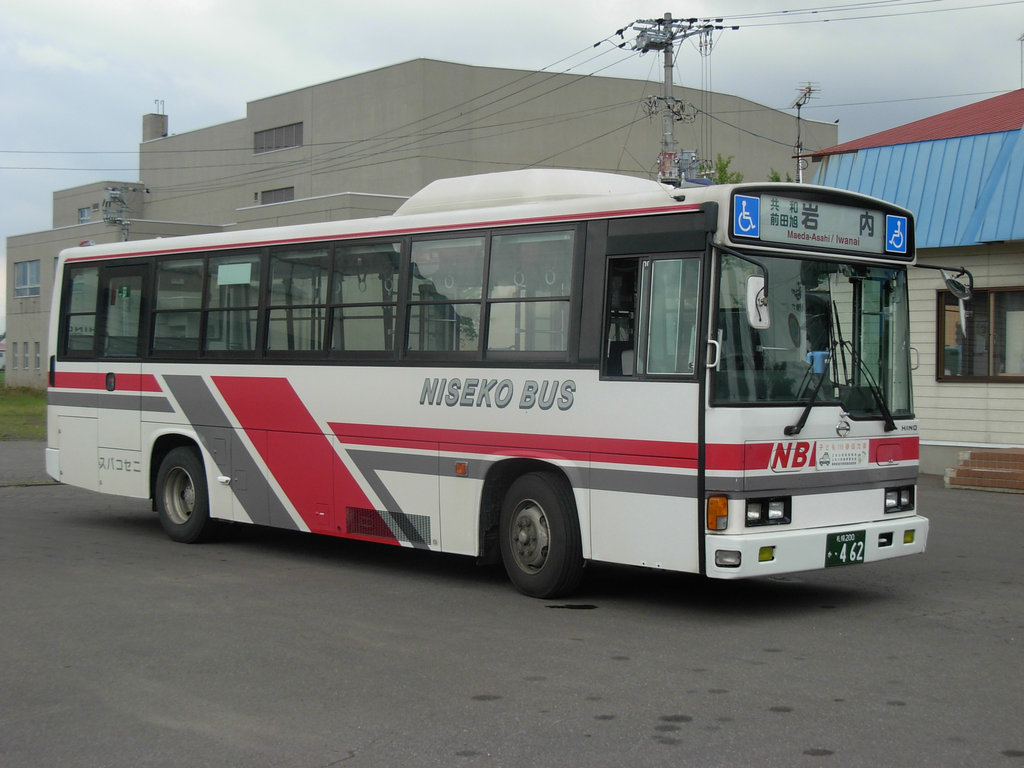 Niseko Bus (mainly for short line) ニセコバスの車両